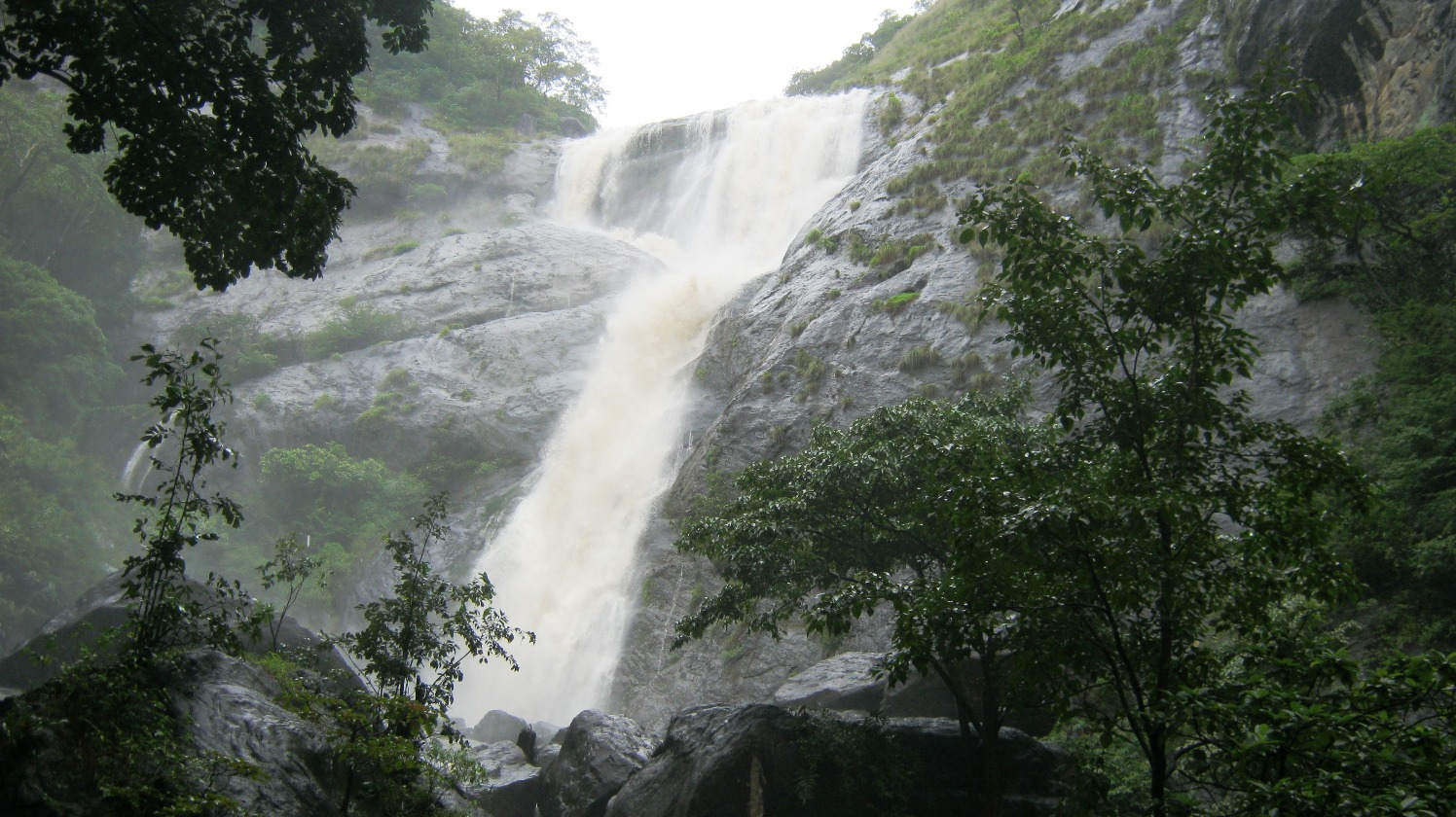 Palaruvi Waterfalls, thenmala